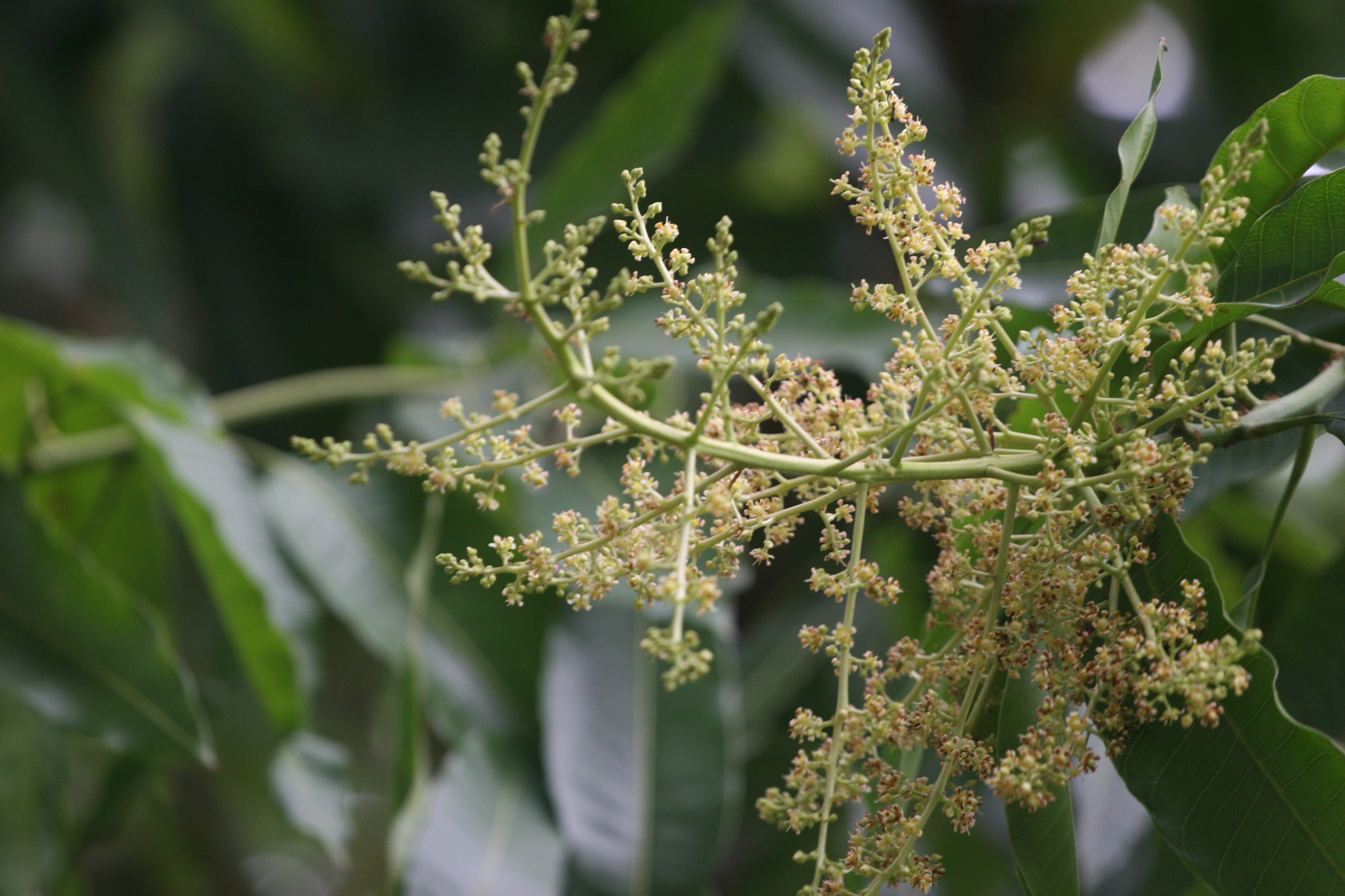 Mangifera indica inflorescence